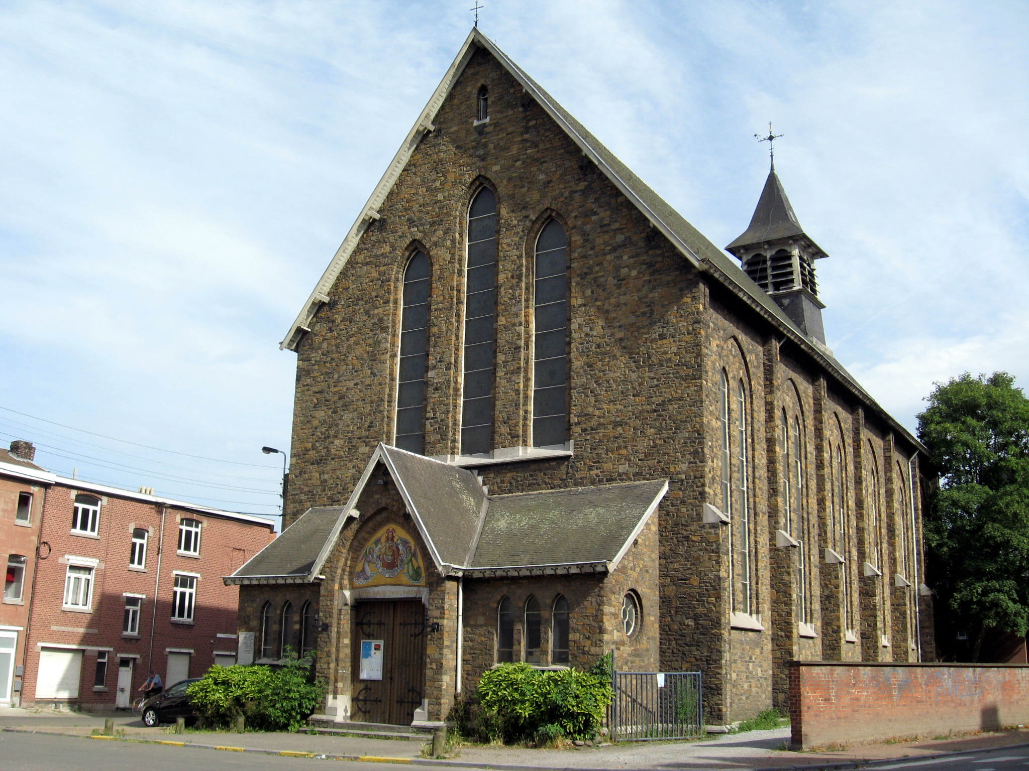 Church of the Holy Heart in Robermont, Grivegnée, Liège, Liège, Belgium